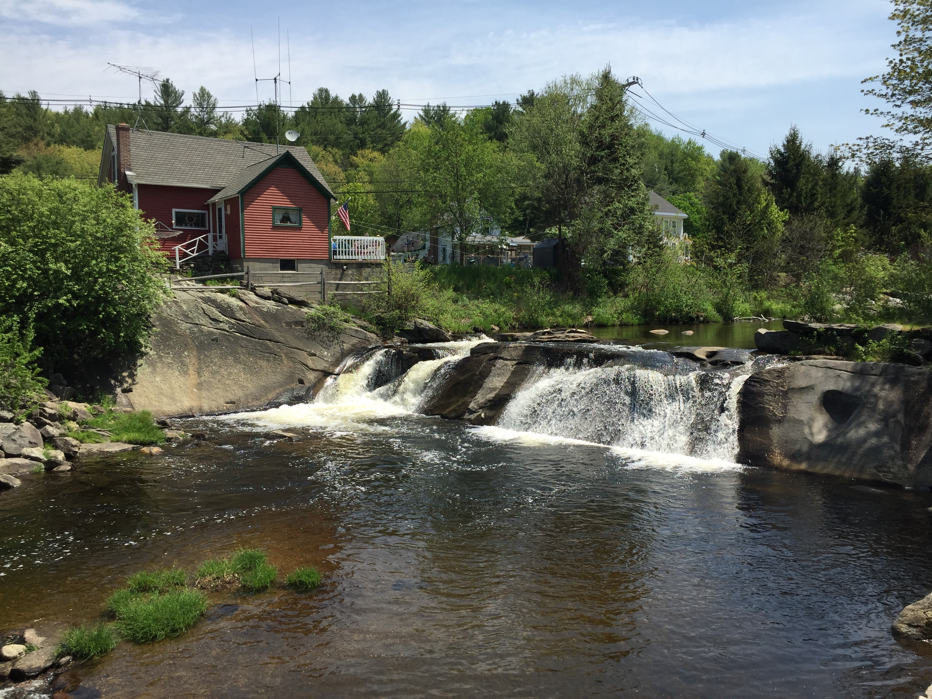 South Branch Sugar River at Lear Hill Road in Goshen, New Hampshire, May 2016